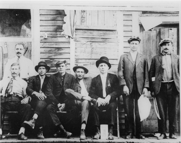 The Dawahare family, founders of the Dawahares retail clothing store chain, in front of their first store in 1917. Company founder, Srur Dawahare, is standing in the back left. Others pictured are (left to right): Joe Hazen, Dahar Curry, Solomon Haddad, Naji Wise and Srur Hazen.